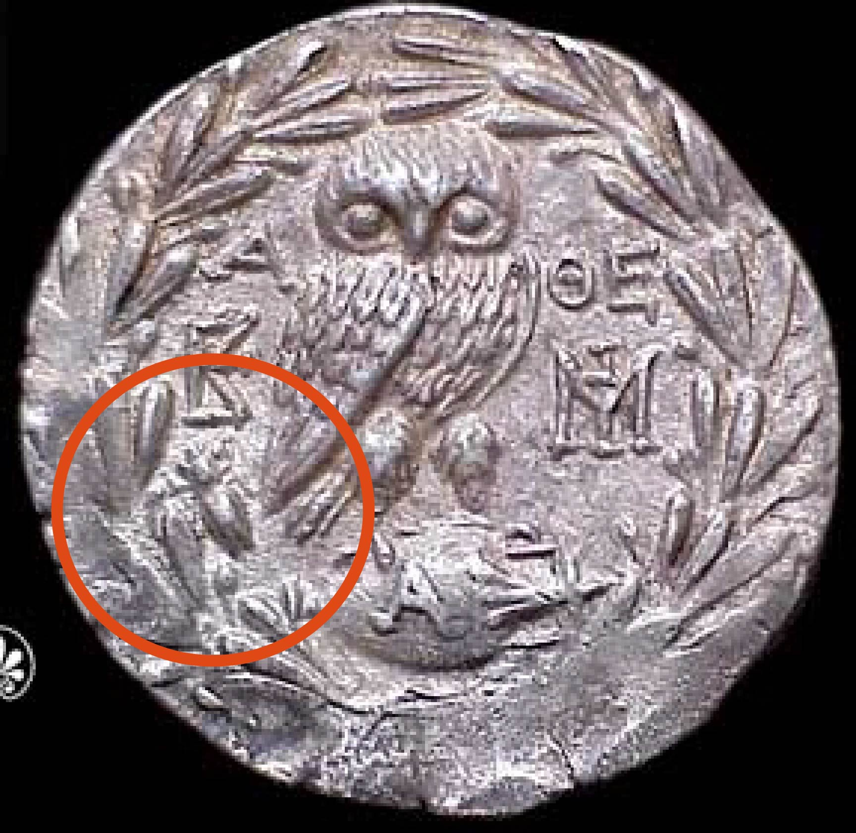 Attica, Athens. 152/1 BC. AR New Style Tetradrachm (16.71 g). Helmeted head of Athena right / Owl standing right on amphora; monogram and cicada to left, monogram to right; all within wreath. Thompson 65.